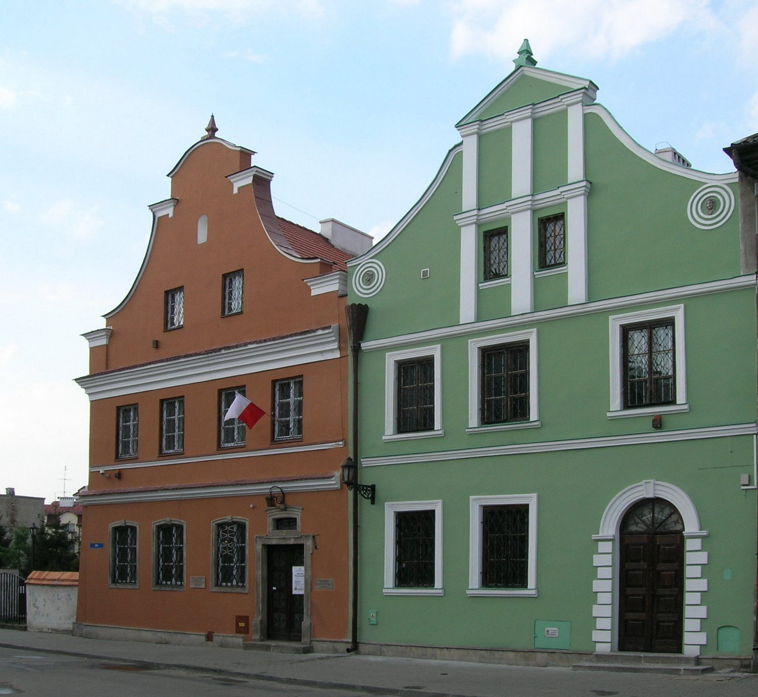 Now Museum of Contemporary Art, in Radom, Poland. The Gąska & Esther Houses.